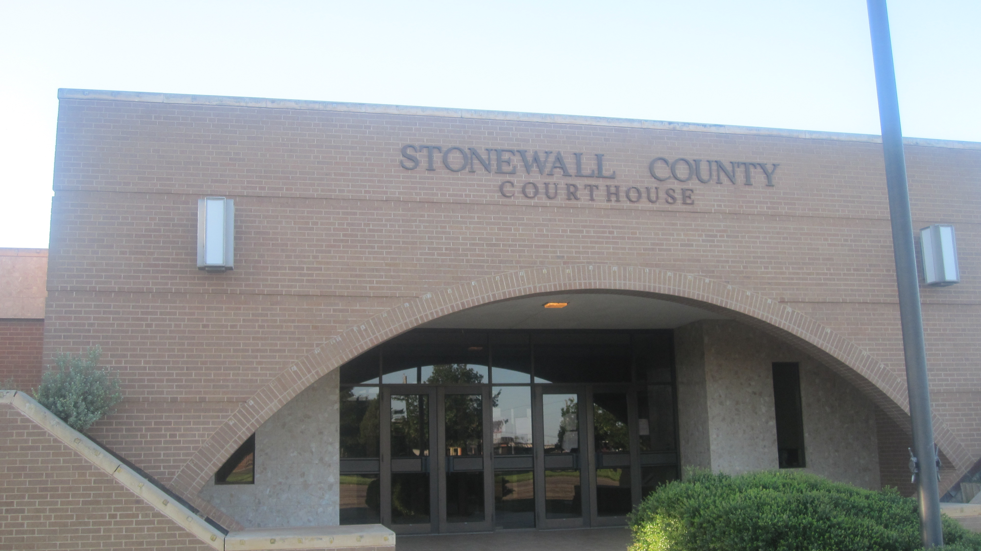 I took photo in Aspermont, TX, with Canon camera.